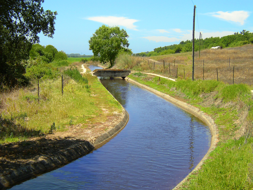 Sorraia Irrigation Channel in Portugal